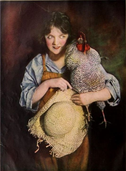 Colorized photograph of actress Jean Paige from page 10 of the September 1919 Shadowland (credit on page 79).